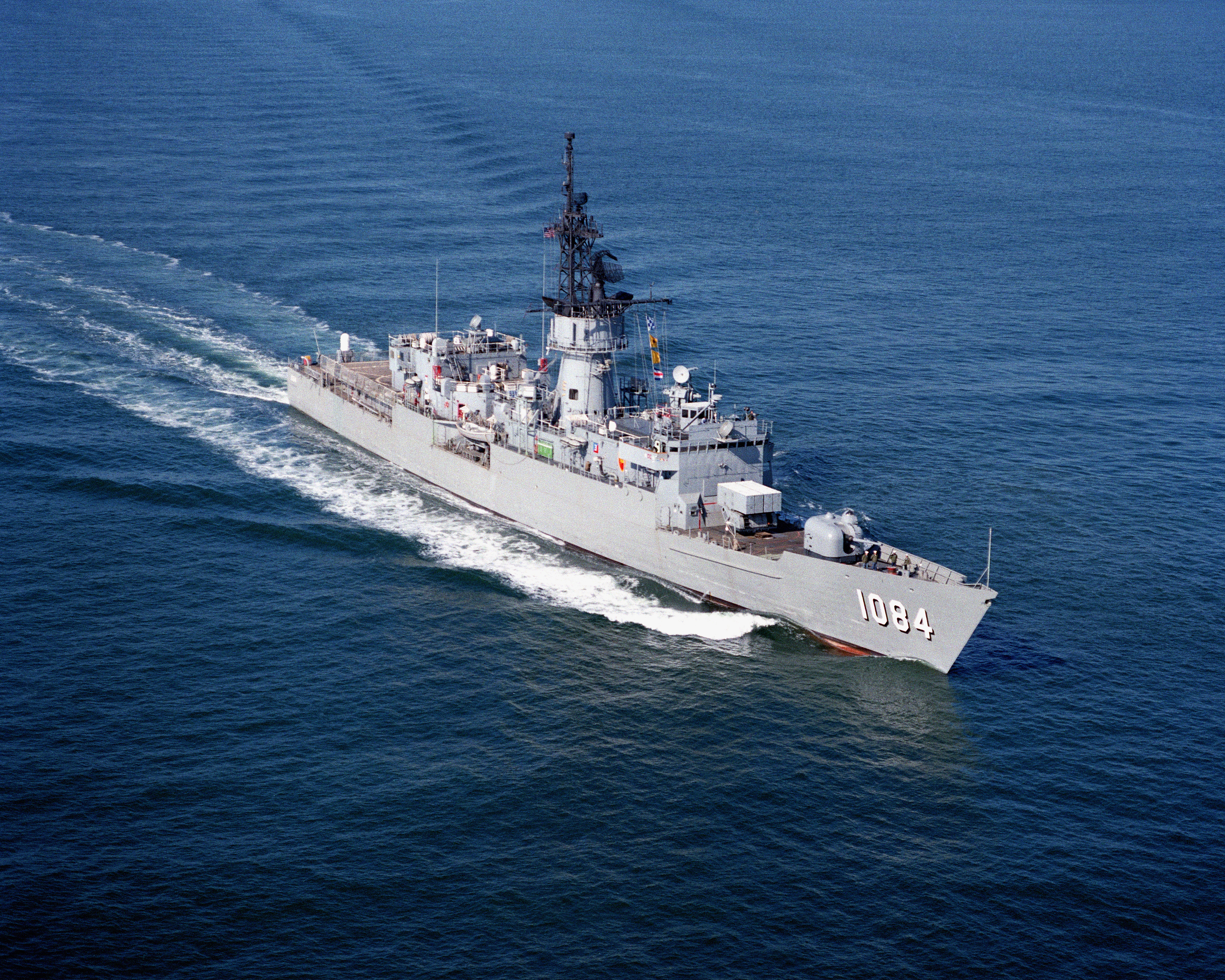 A starboard bow view of the frigate USS MCCANDLESS (FF 1084) underway in Thimble Shoals en route to the open ocean for sea trials.